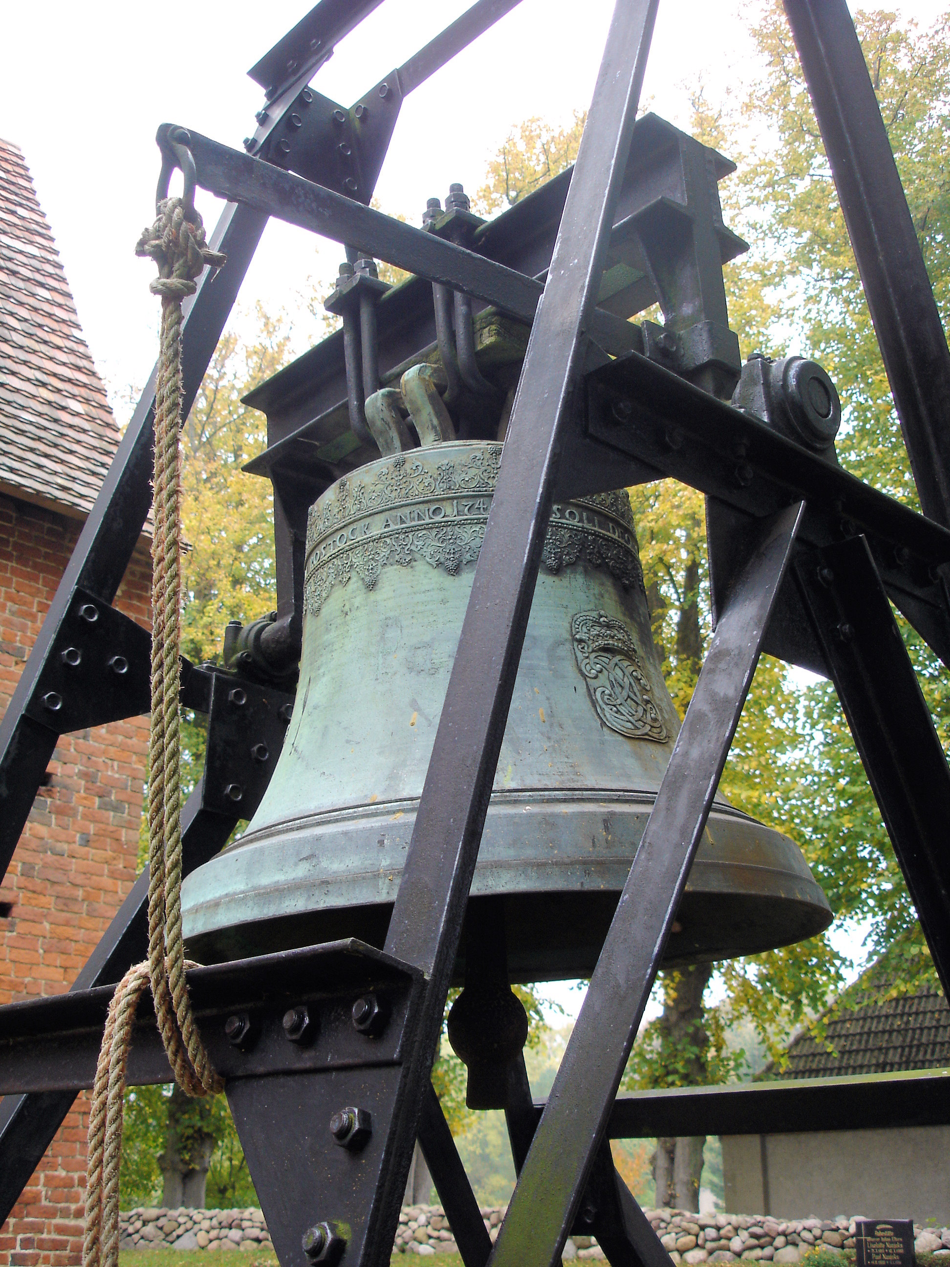 Churchbell in Passee, Mecklenburg, Germany